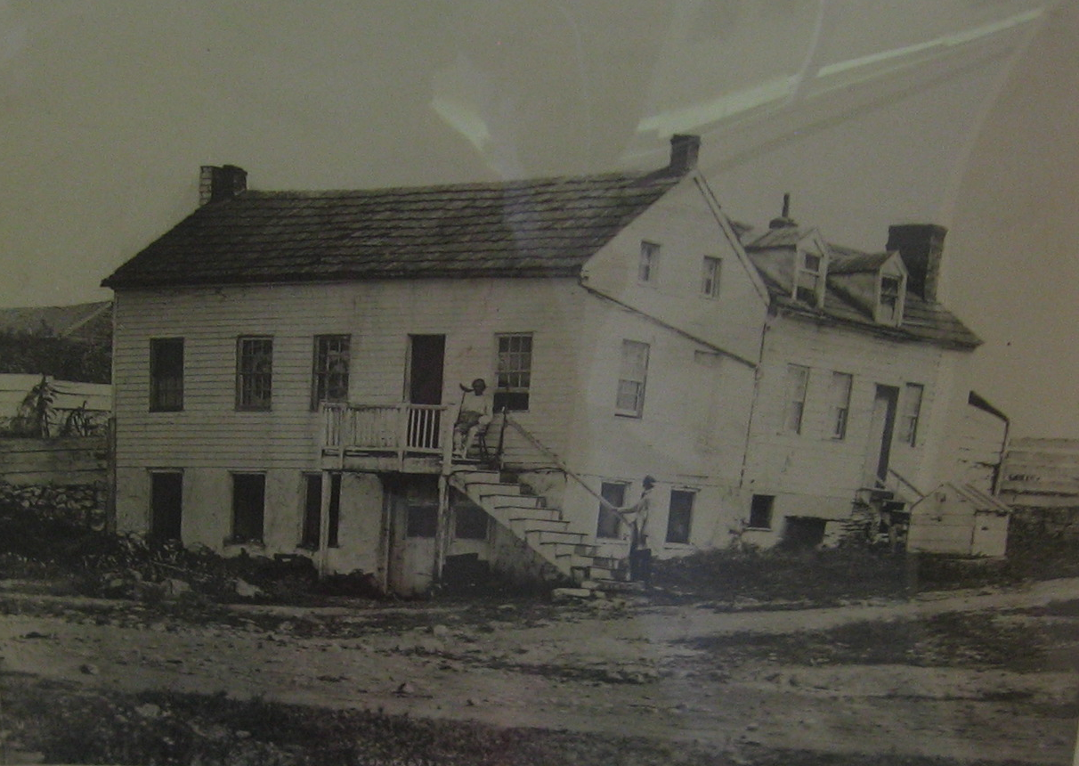 Photograph of John L. Burns